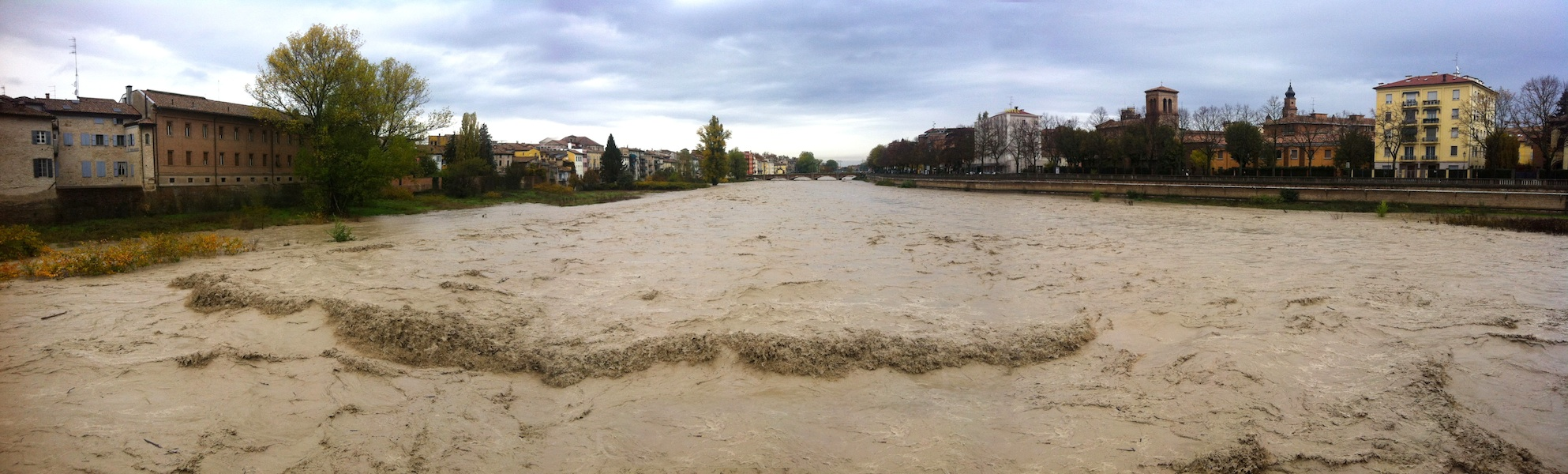 Parma River View. Shoot taken from Caprazucca Bridge in Parma, on November 11th, 2012